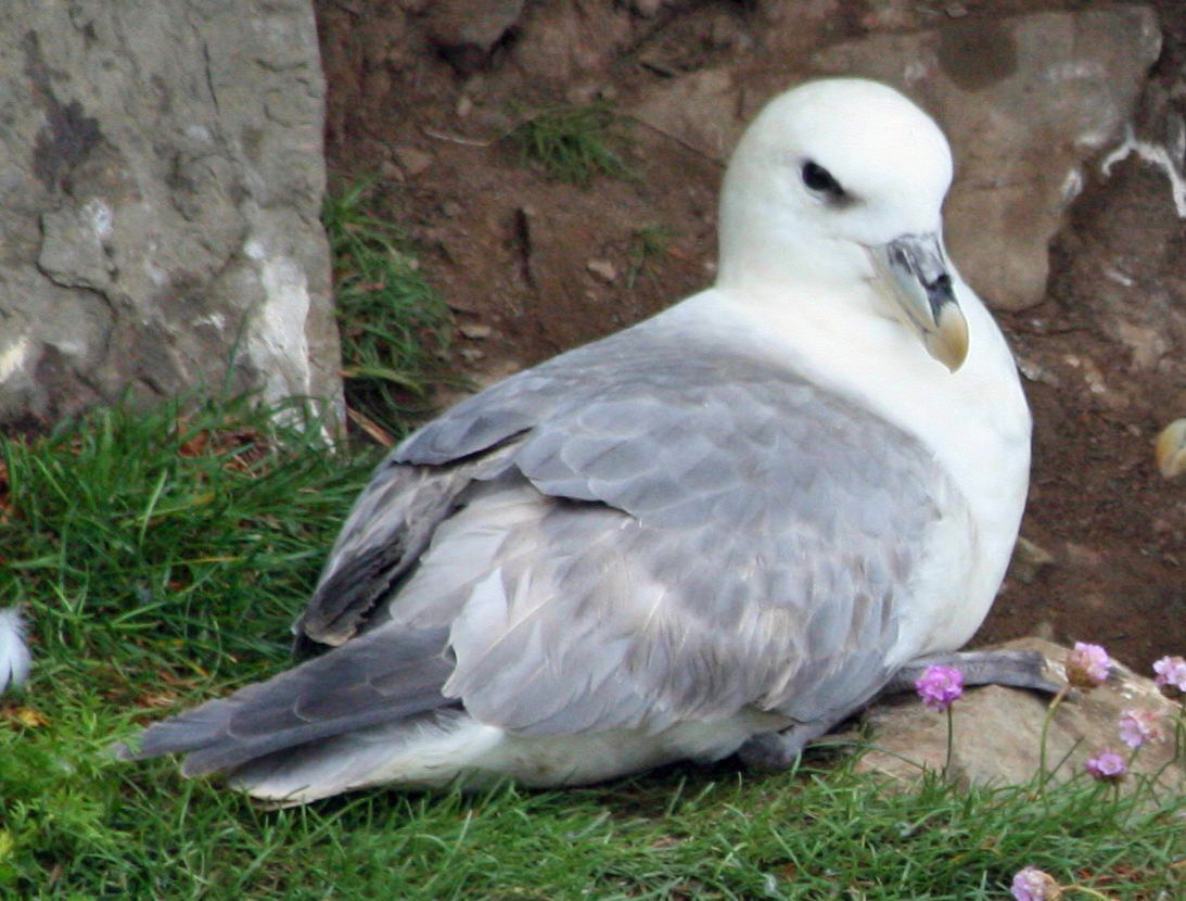 Northern Fulmar (Fulmarus glacialis) - Scotland